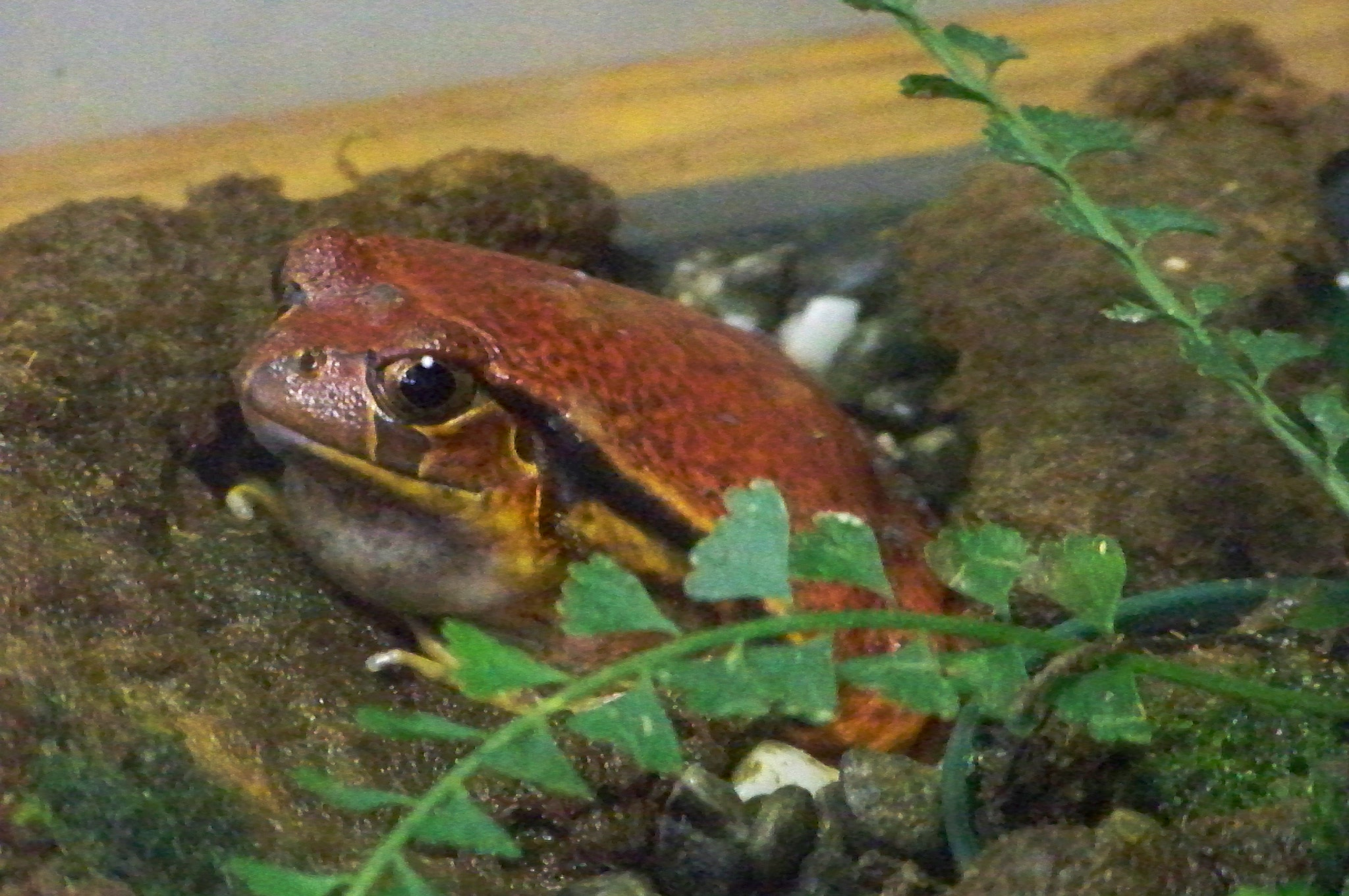 Dyscophus guineti, Part of the Biodome exhibit at the California Academy of Science in San Francisco, California.